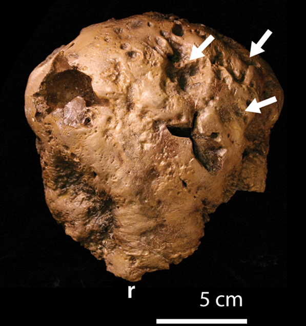 TMP 72.27.01, Gravitholus albertus in dorsal view of erosive lesions